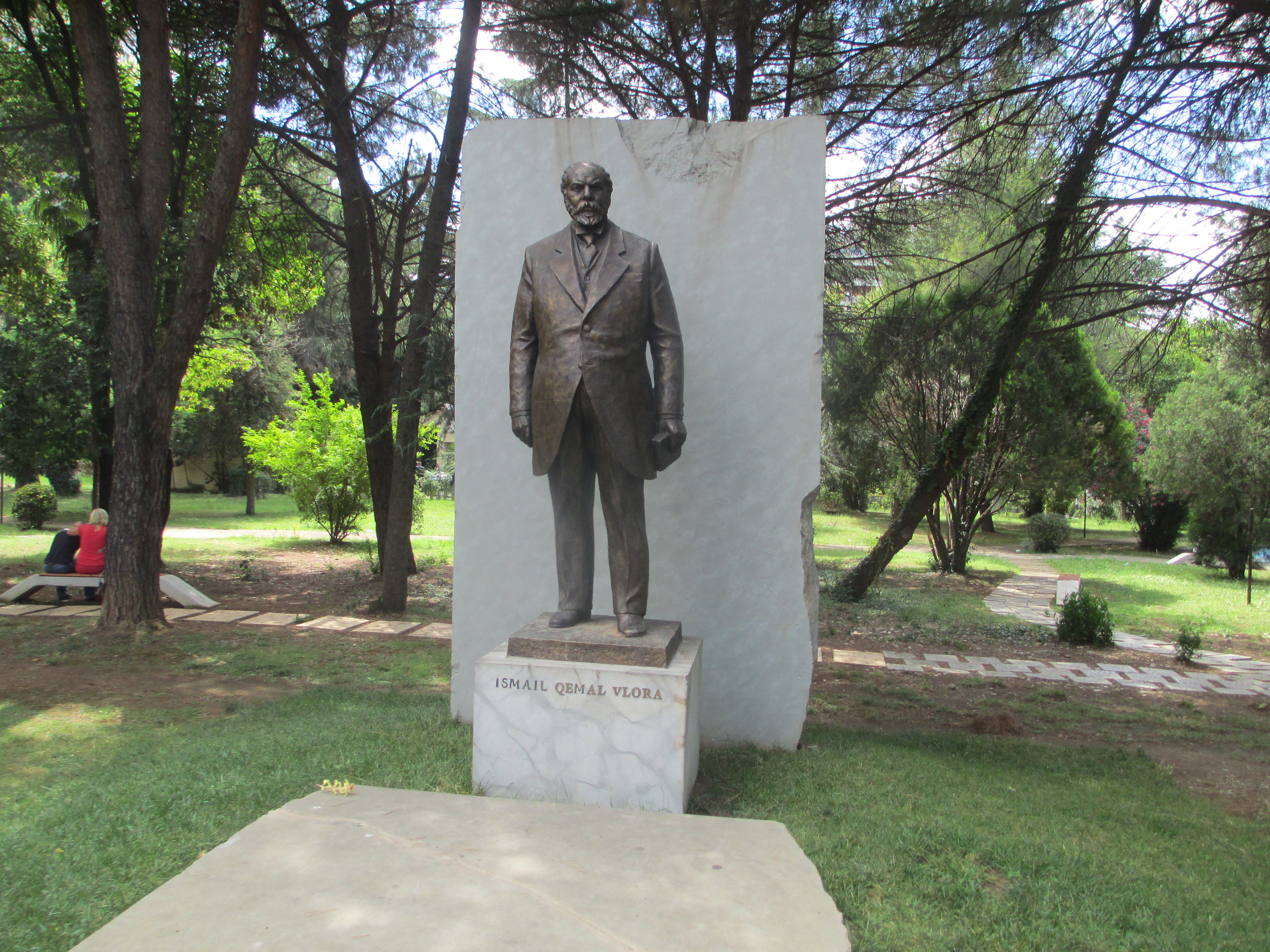 Monument of Ismail Qemal Vlora in Tirana